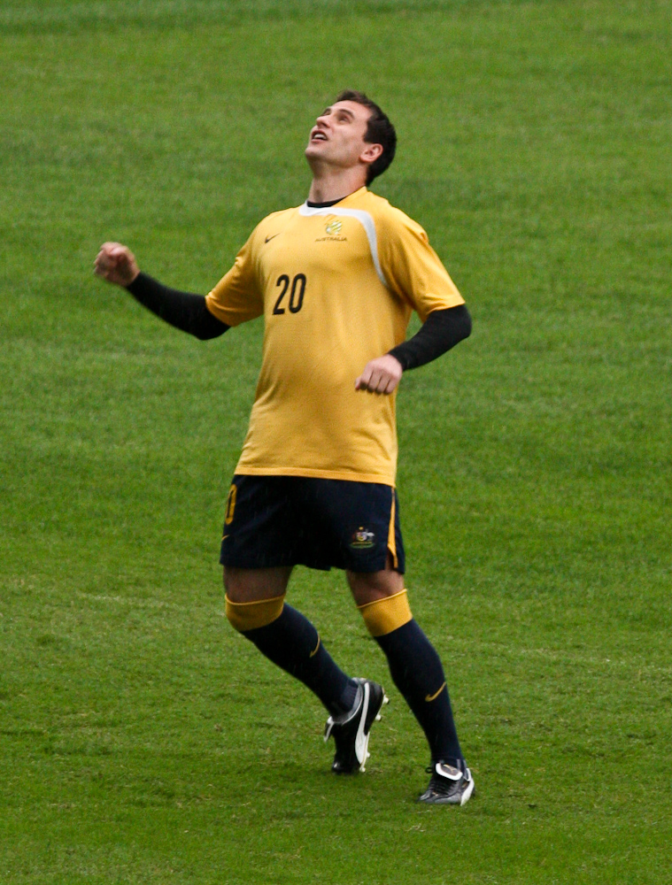 Richard Garcia after a training session at ANZ Stadium the day before a World Cup Qualifying game against Uzbekistan.